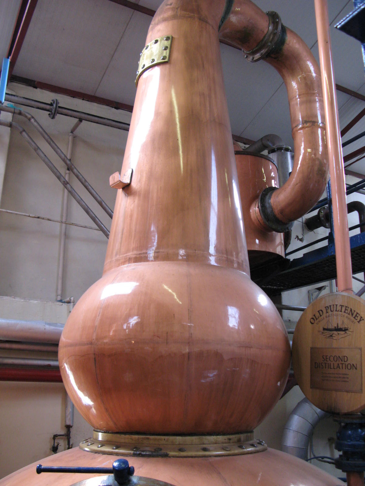 Pot still in Old Pulteney Distillery, Wick, Scotland